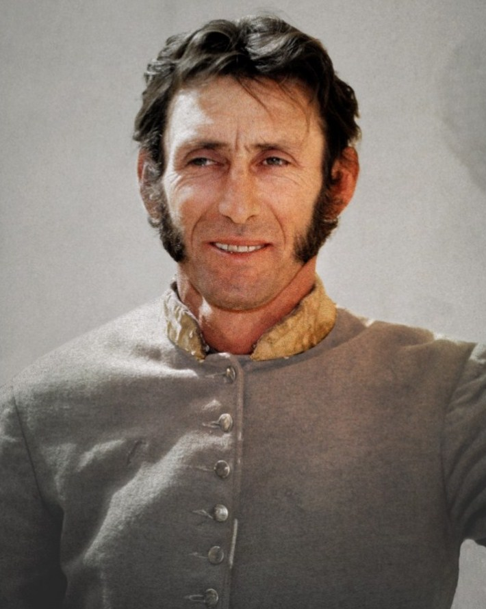 Robert Donner in The Undefeated (1969) - publicity still (original image cropped : see source)